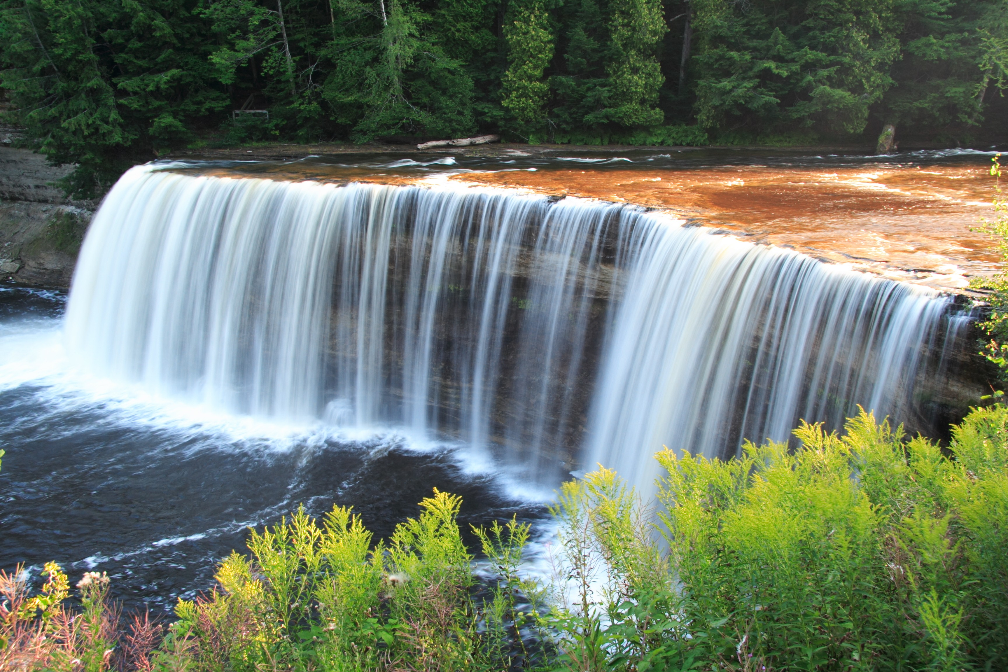 Upper Falls, Tahquamenon Falls State Park, Michigan